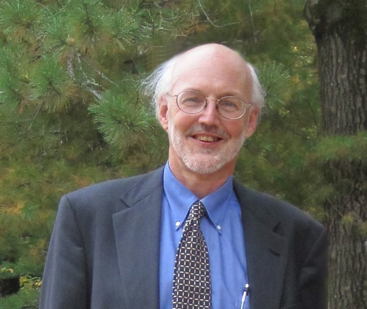 Photo for Wikipedia Article on Peter W. Jones - Mathematician - Yale University